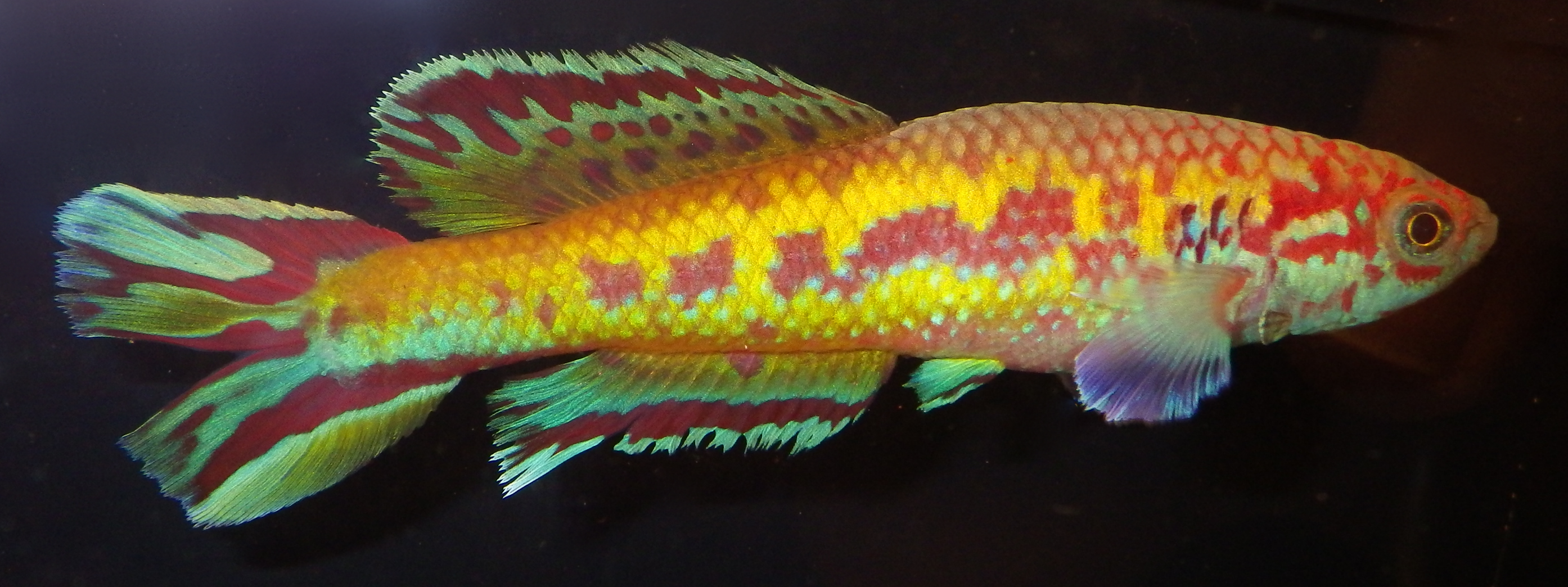 Male Callopanchax occidentals ("Golden Pheasant") -- ancestral collection location Teme Yella SL89 DRCH